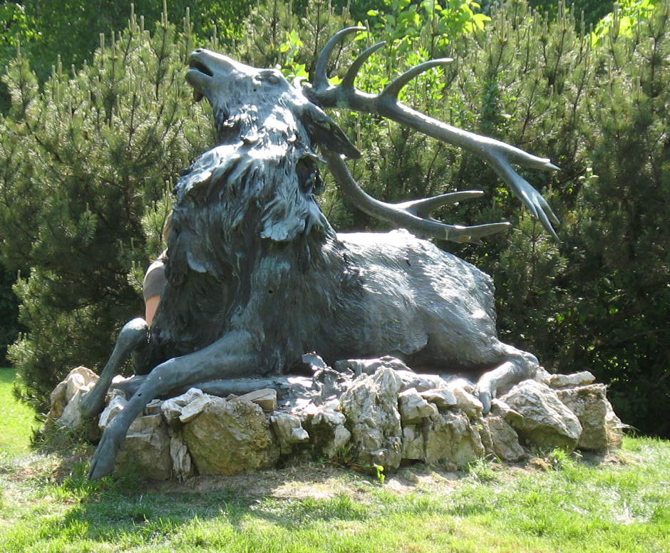 Topoľčianky